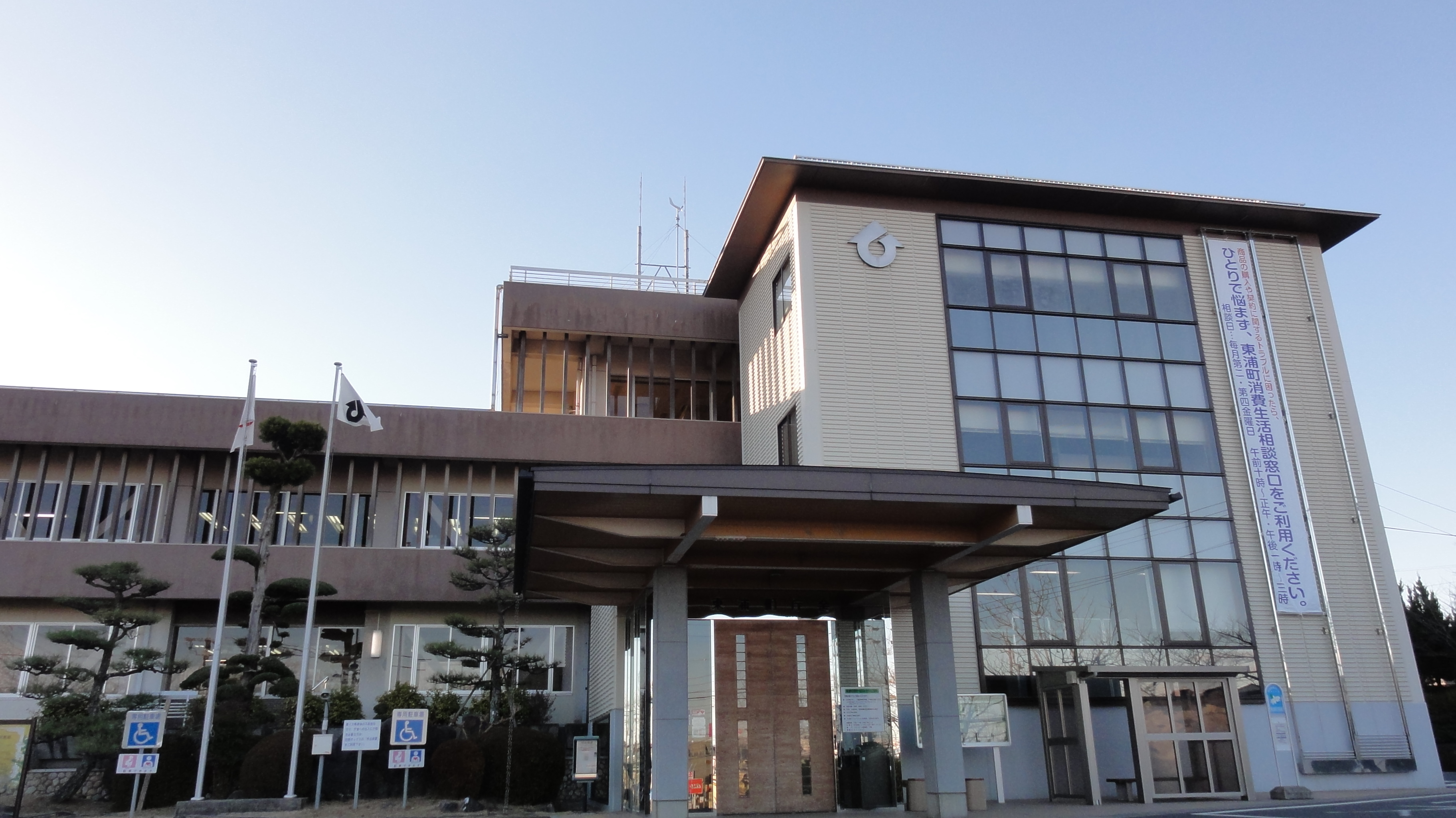 Higashiura town office, Aichi prefecture,Japan